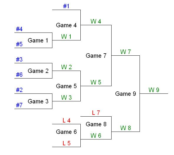 I made this to illustrate the need for a template portraying the 1973-1978 ACC baseball tournaments